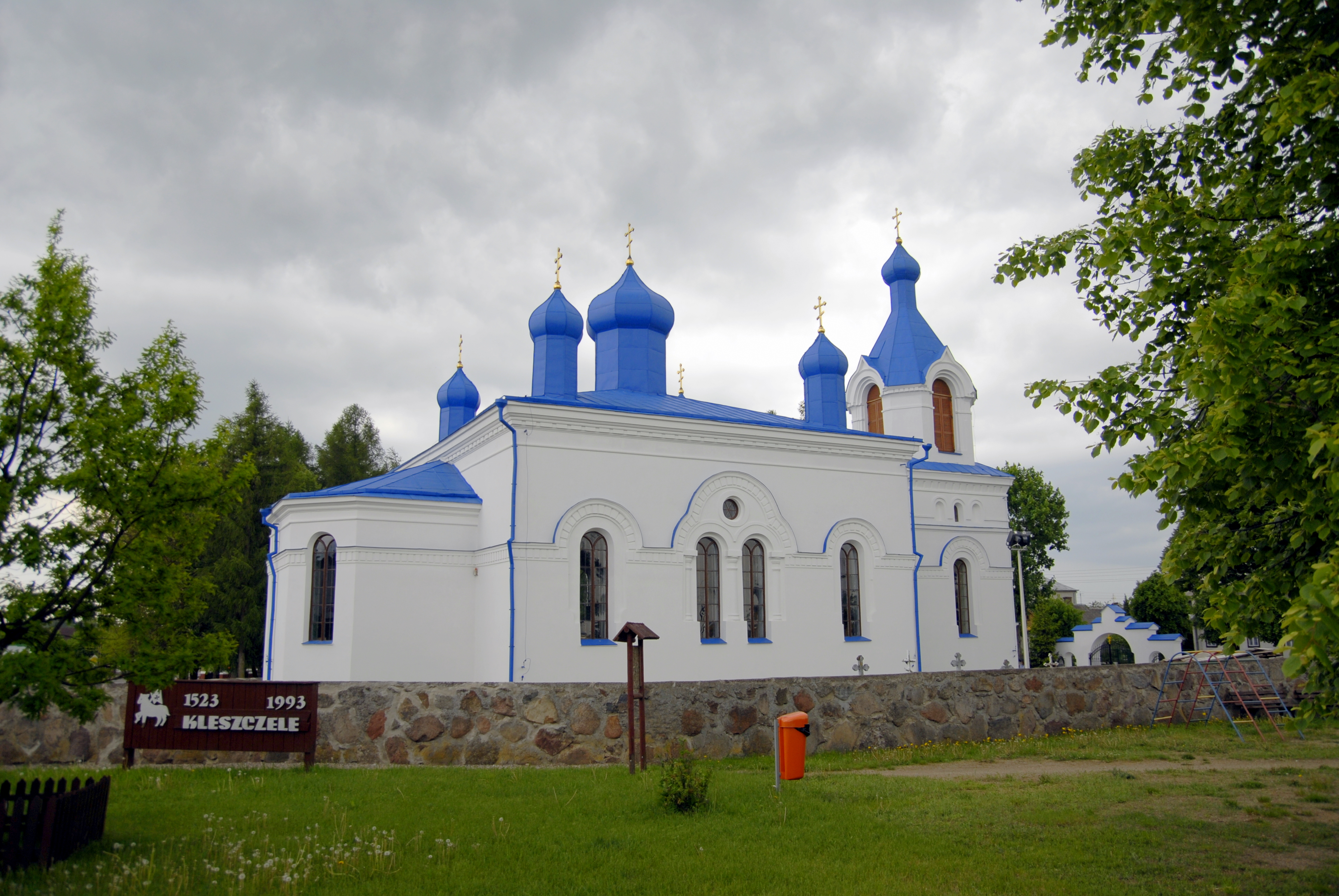 Dormition's of the Theotokos Orthodox Church in Kleszczele (Poland)